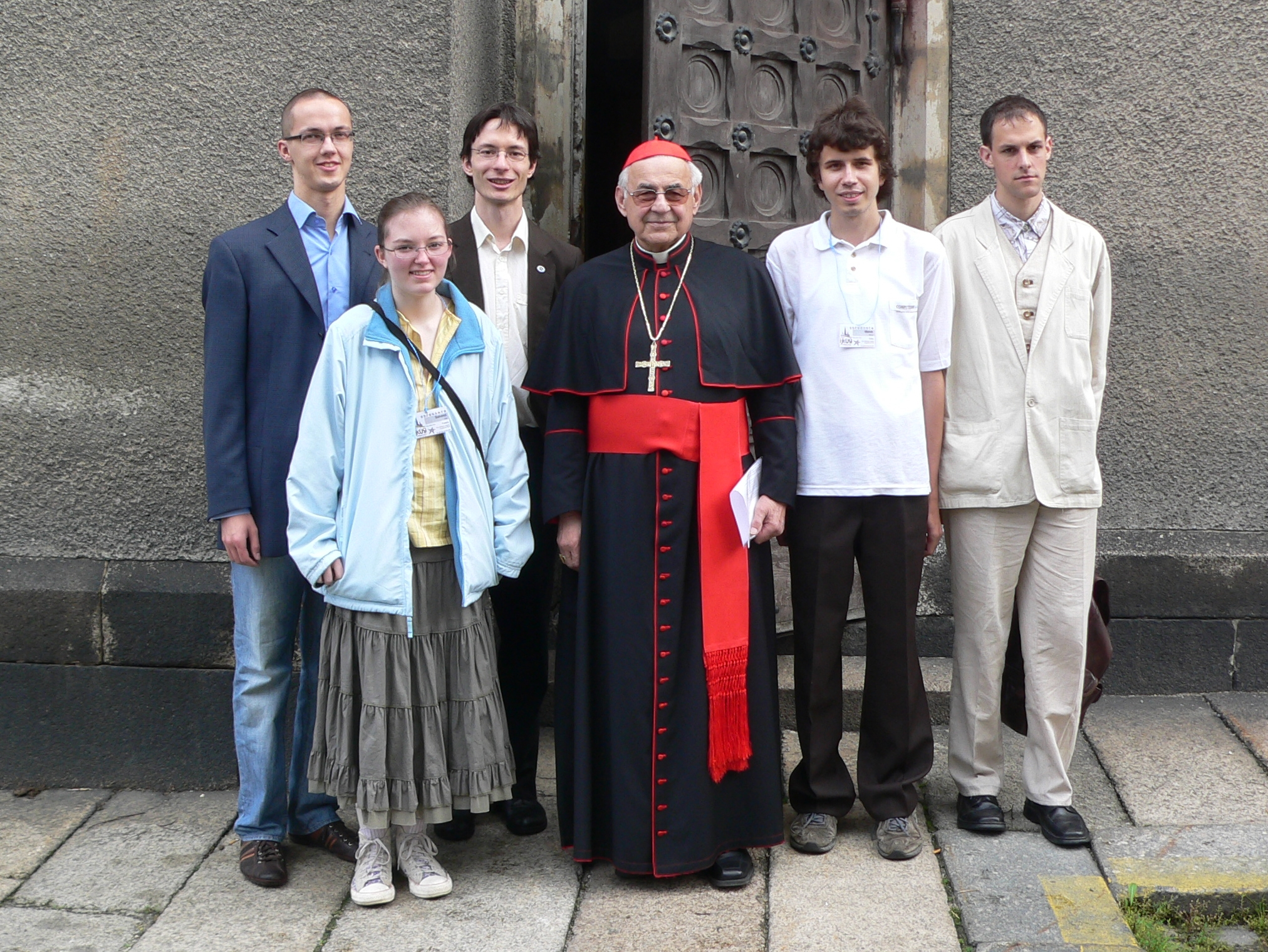 Deputies of the congress with the celebrant after the Esperanto Holy Mass, celebrated by Cardinal Miloslav Vlk during the International Youth Congress of Esperanto in the St. Anthony the Great Church, Liberec, Czechia.